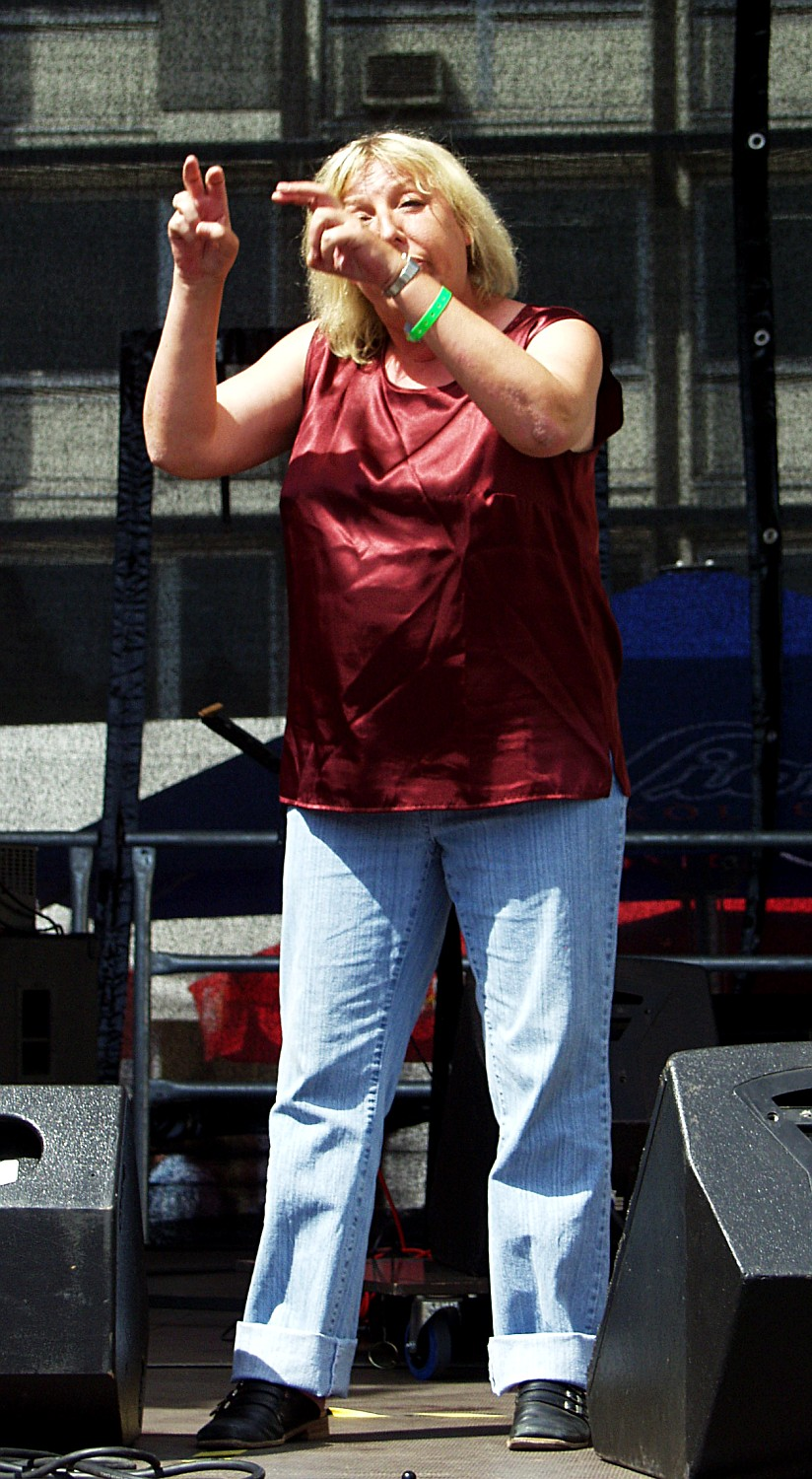 Sign language interpreter at the "Heumarkt" in Cologne, Germany during ColognePride 2006.